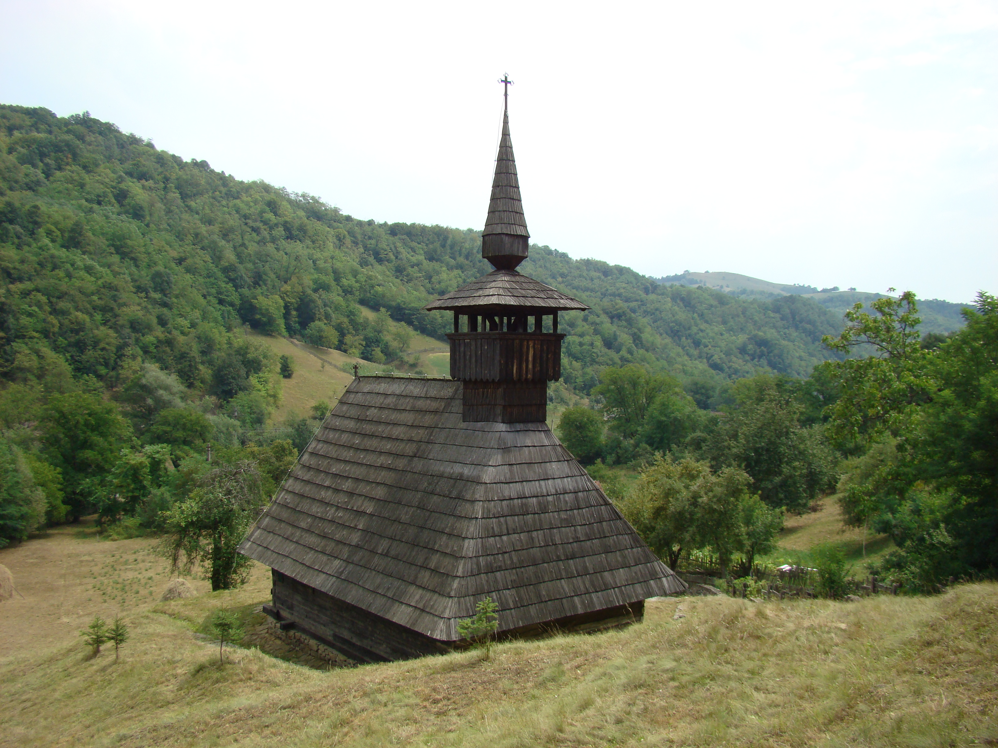 wooden Orthodox church in Troaș, Romania